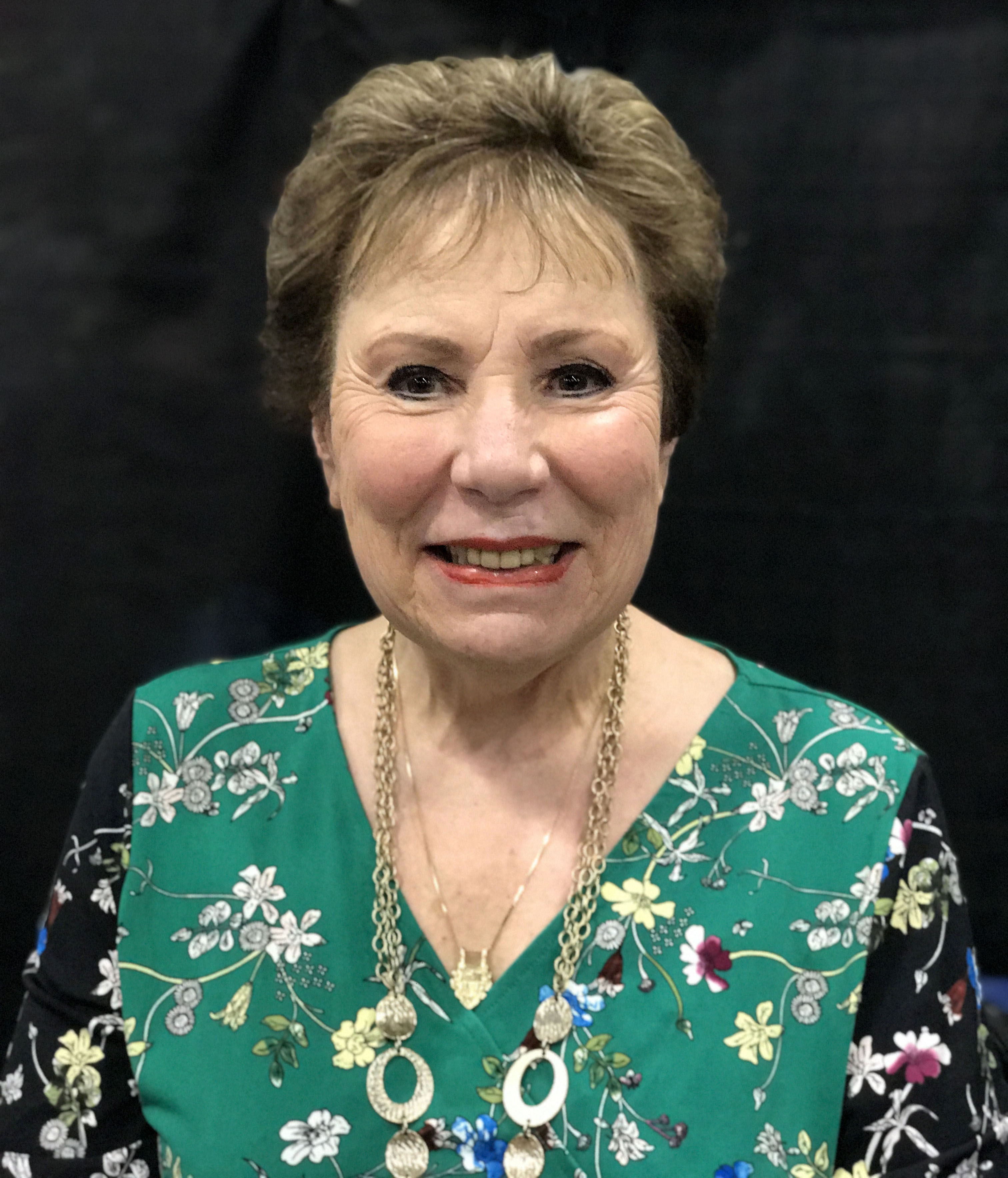 Voice actress/singer/writer Diane Pershing at the Meadowlands Exposition Center in Secaucus, New Jersey on Sunday, May 19, 2019, Day 3 of the East Coast Comicon. This photo was created by Luigi Novi. It is not in the public domain, and use of this file outside of the licensing terms is a copyright violation.